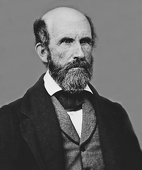 Benjamin Gwinn Harris, Maryland Congressman.